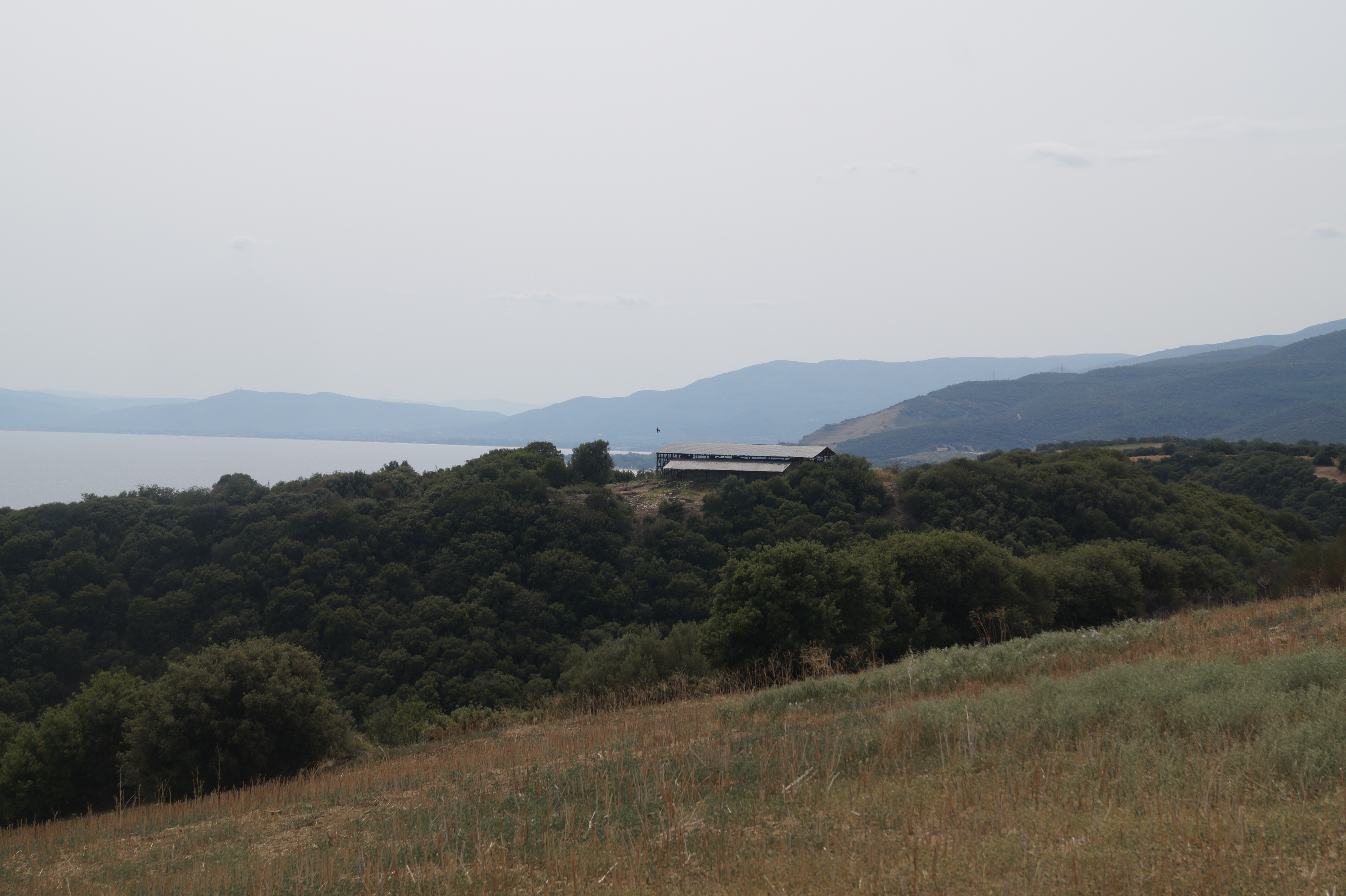 Amphipoli, Makedonia, Greece: View from Tetralofos on the acropolis of Argilos.